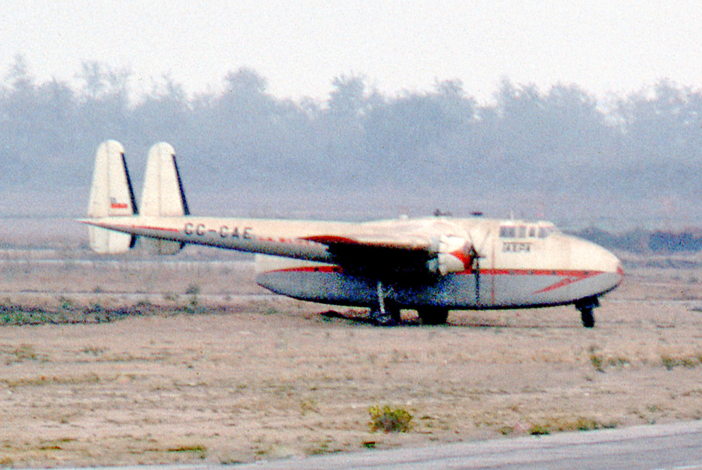 Fairchild C-82A CC-CAE of Taxpa at Santiago Los Cerrillos Airport, Santiago. Cile, in 1972